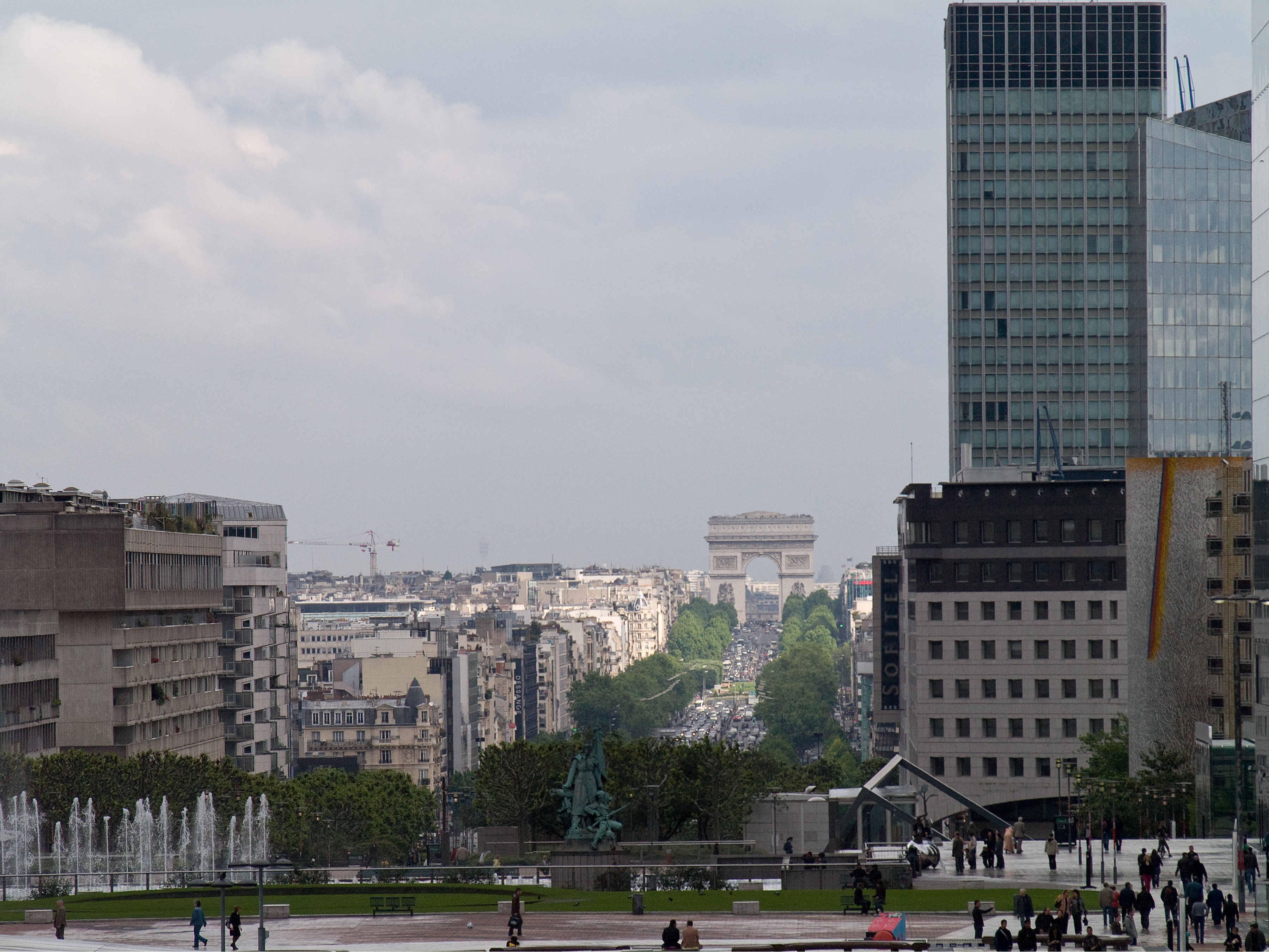 Paris : The Arc de Triomphe seen from La Défense